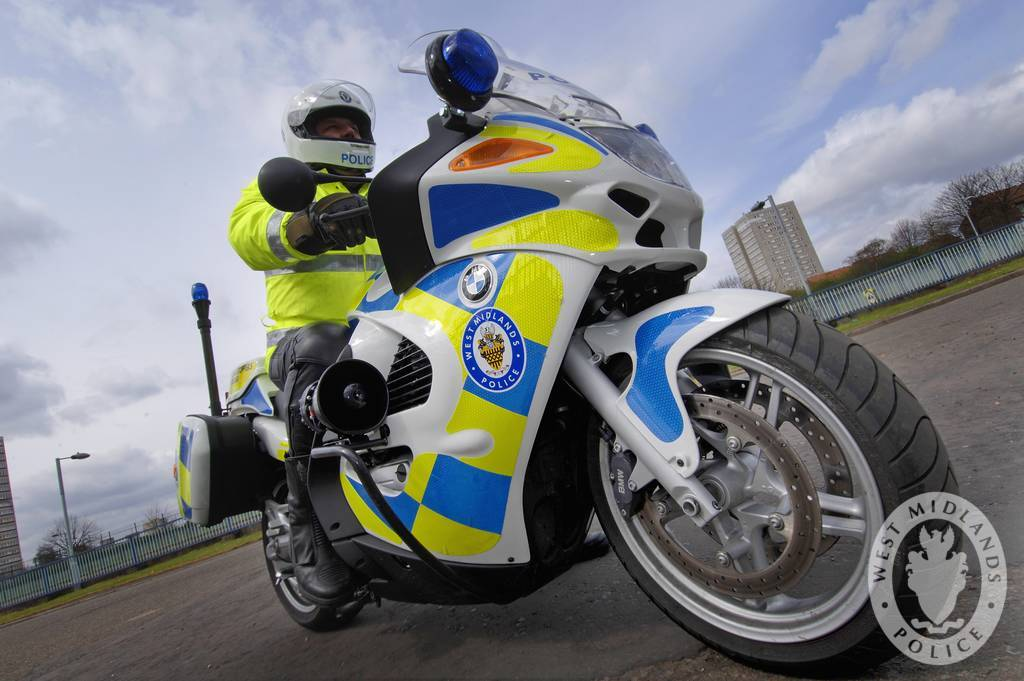 Great photo showing one of our Traffic officers on a West Midlands Police motorbike. The Force Traffic Unit has access to several specialist vehicles including bikes, cars, off-road vehicles, 4x4s and vans.